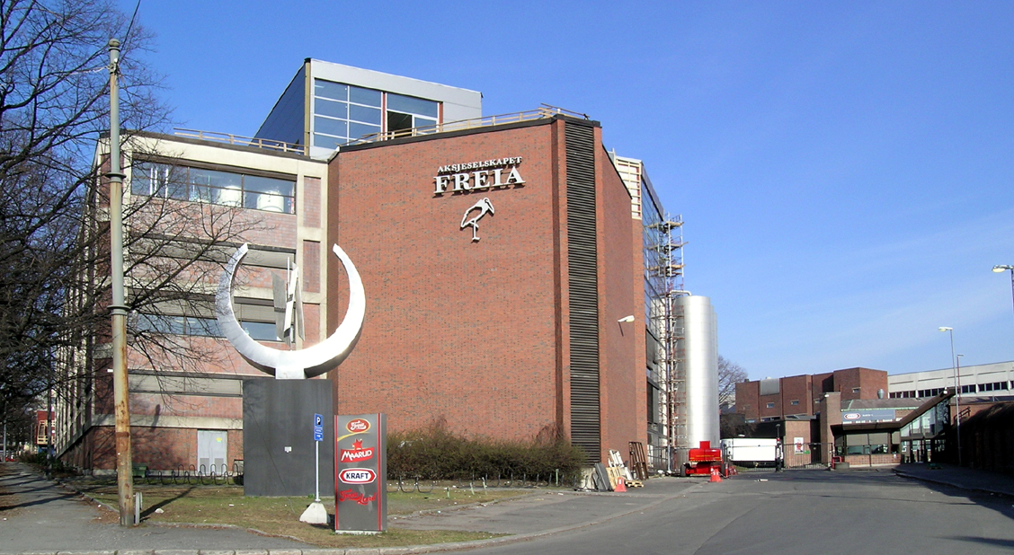 Freia fabrikker, Rodeløkka, Oslo, Norway. New factory built 1983. Today part of Kraft Foods.